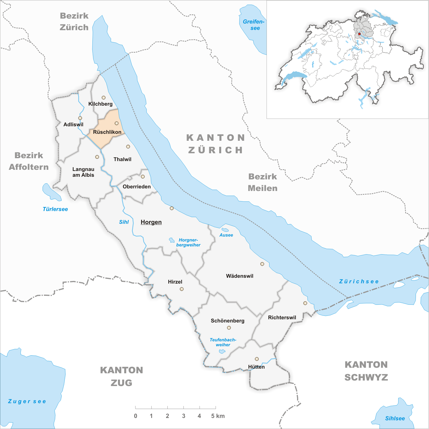 Municipality Rüschlikon